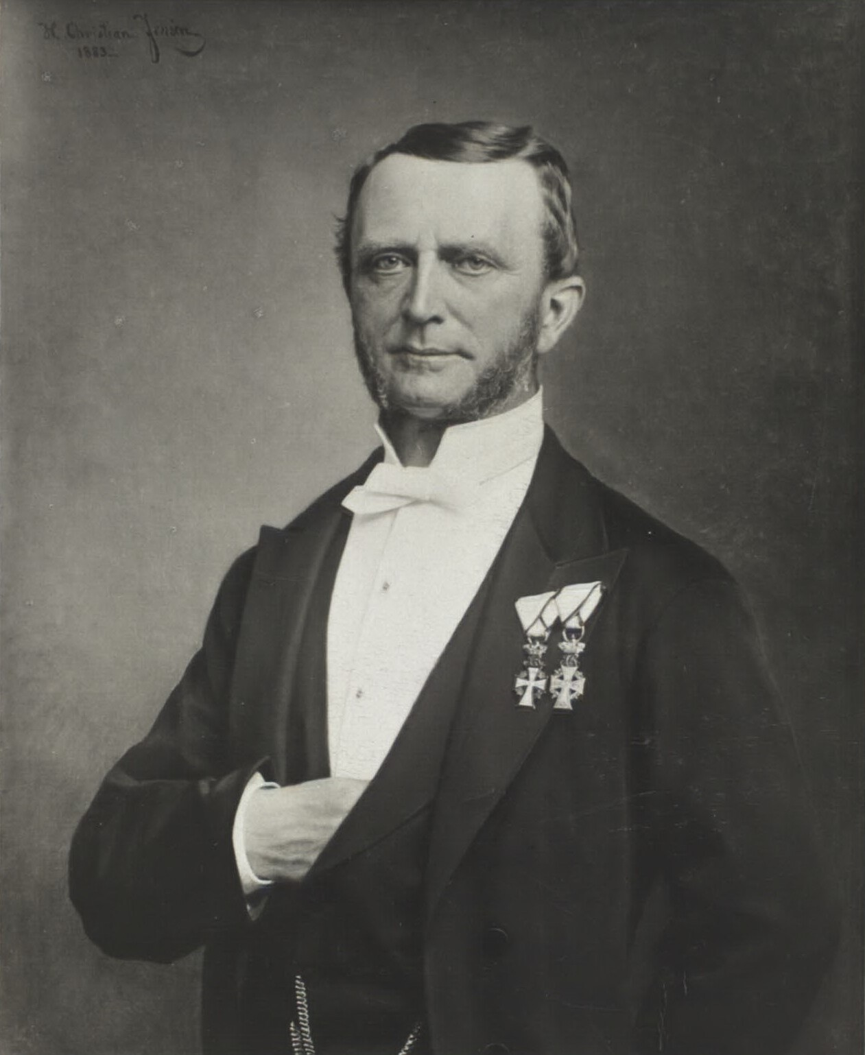 Danish businessman, merchant Svend Wilhelm Isberg (1820-1895)